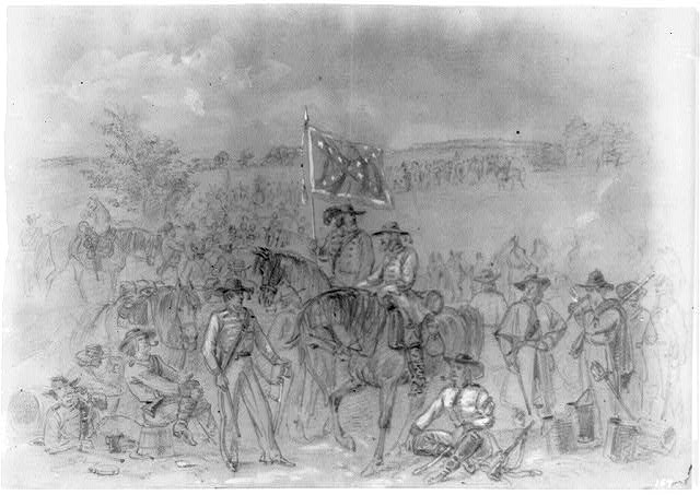 The 1st Virginia Cavalry at a halt. Drawing on tan paper, pencil and Chinese white